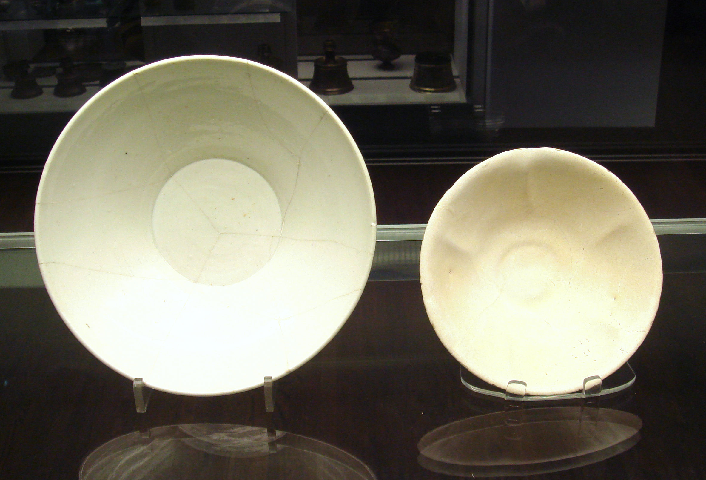 Chinese_white_ware_and_Iraqi_earthenware_bowls_9th_10th_century_both_found_in_Iraq.